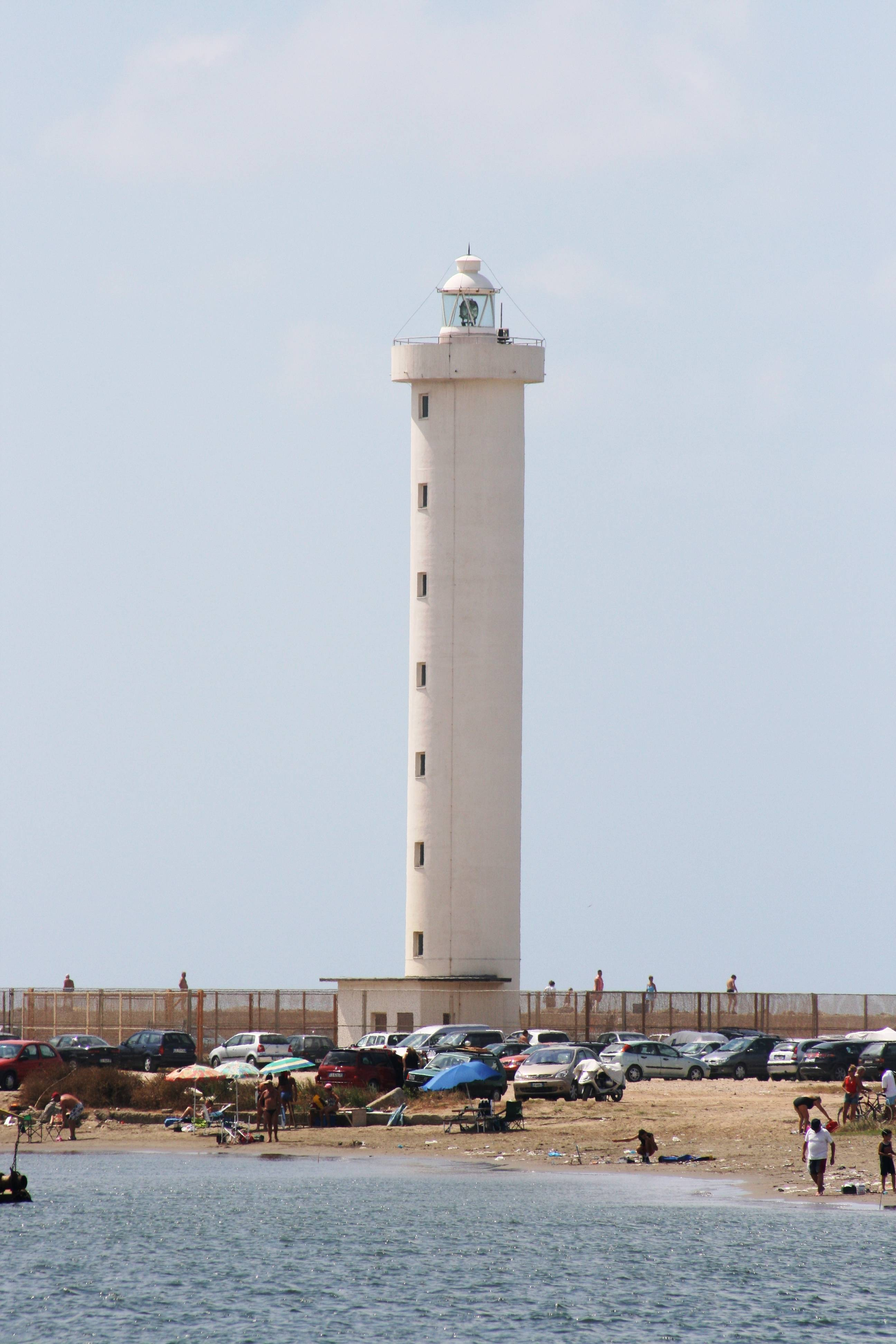 Faro